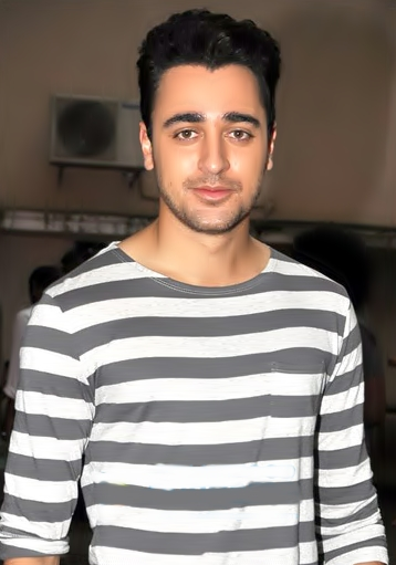 Imran Khan & Anushka Sharma snapped during Bru Gold's photoshoot